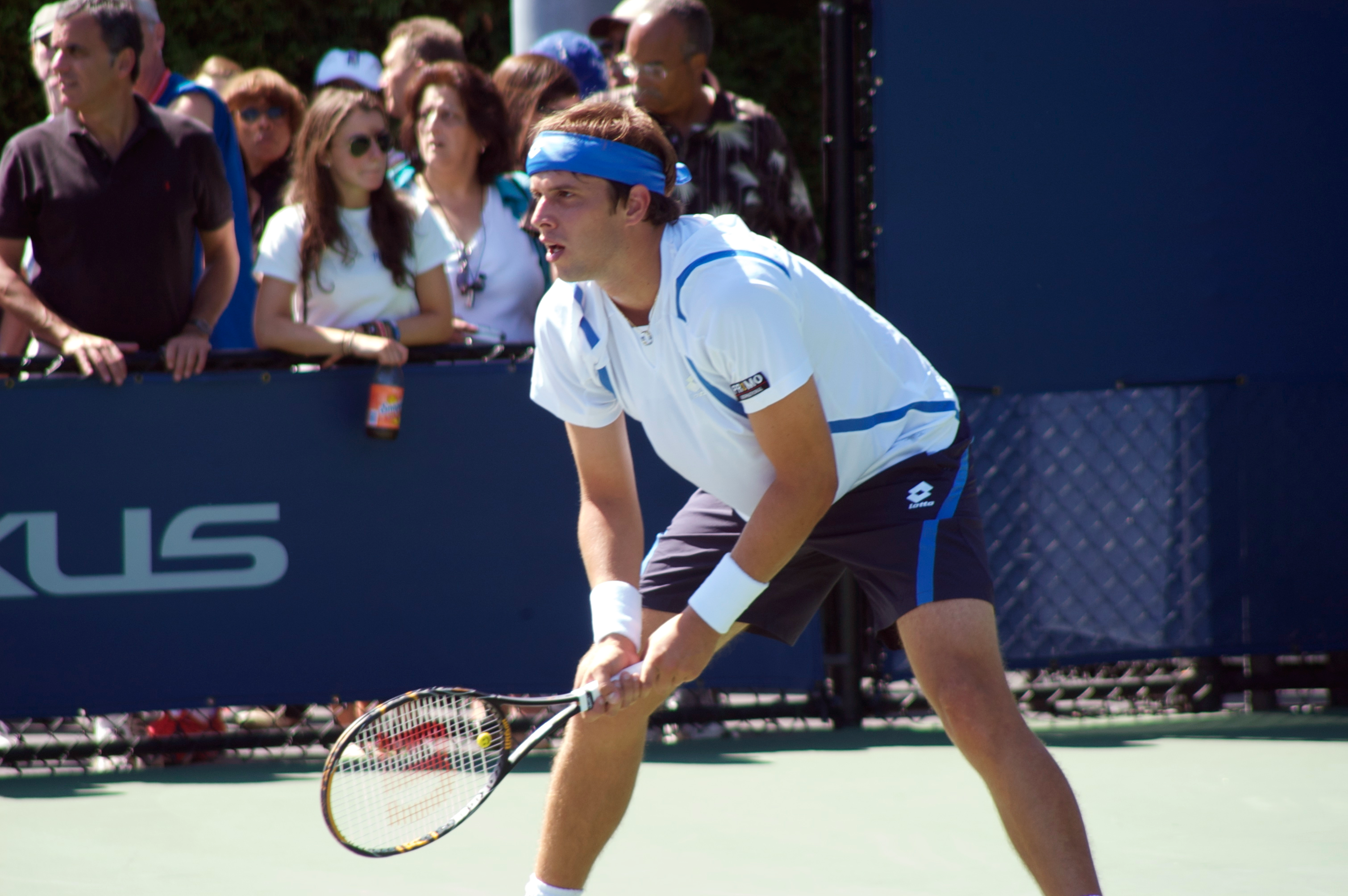 Gilles Muller at the 2008 U.S. Open (tennis)